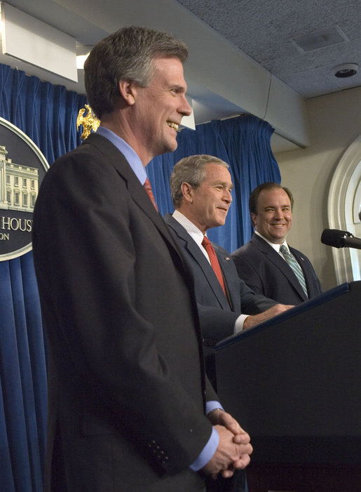 President George W. Bush and outgoing Press Secretary Scott McClellan introduces the new White House Press Secretary, Tony Snow, to the press in the James S. Brady Press Briefing Room.